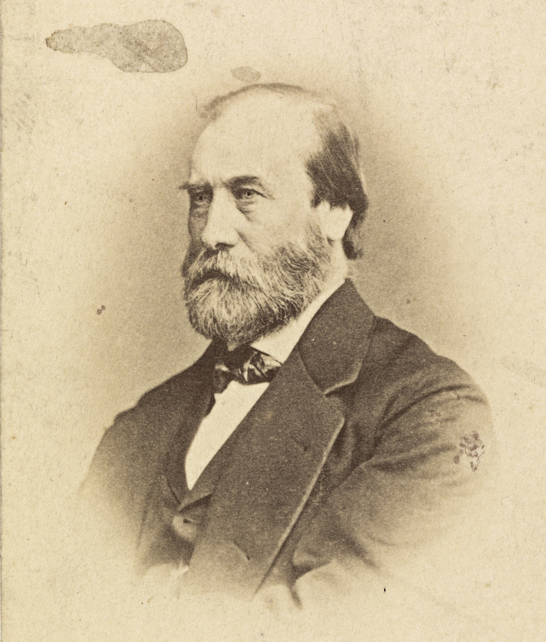 Beskrivelse / Description: Adolph Tidemand var en norsk maler. Visittkort / Carte de visite. Dato / Date: ca. 1870-1875 Fotograf / Photographer: ukjent / unknown Digital kopi av original / Digital copy of original: s/h papirpositiv Eier / Owner Institution: Nasjonalbiblioteket / National Library of Norway Lenke / Link: Bildesignatur / Image Number: blds_07033